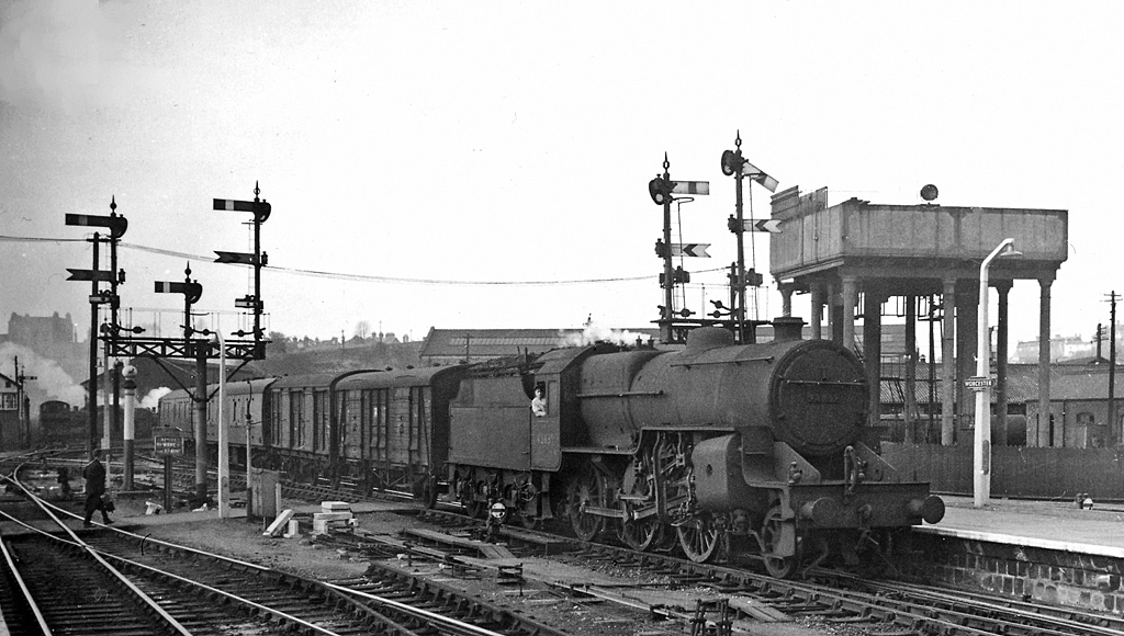 Up Midland Parcels train entering Worcester (Shrub Hill) Station. View northward, towards Wolverhampton via Kidderminster, also Birmingham via Bromsgrove - the route of this train (headed by Hughes/Fowler 5P4F 2-6-0 No. 42839). This Station was primarily ex-Great Western, on the main lines from Paddington via Oxford to Hereford (left) and Kidderminster and Wolverhampton (right). The LMS (ex-Midland) trains had running powers over the loop from its Birmingham - Bristol main line at Stoke Works Junction to Abbots Wood Junction. To the left can be glimpsed part of the GW Locomotive Depot. Beyond is the hill from which my SO8555 : Worcester Locomotive Depot. was taken.